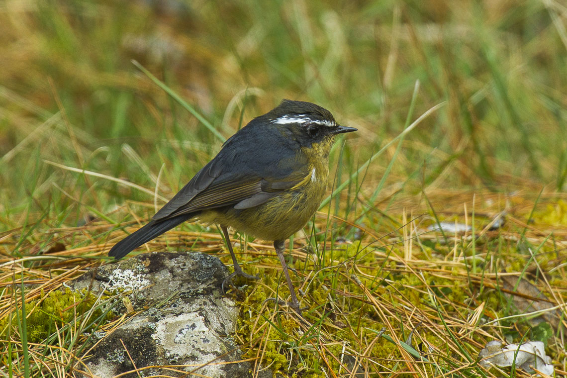 White-browed Bush-Robin - Taiwan_S4E7041